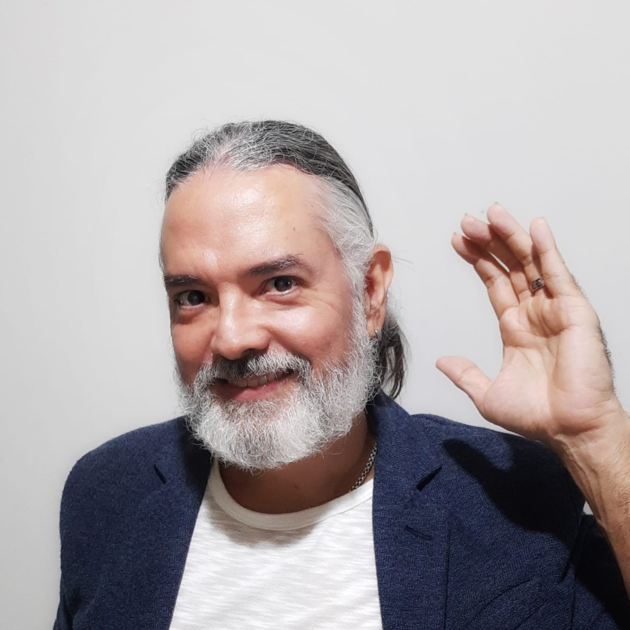 Photo by Professor Pedro Cordier, TEDx lecturer with Talk O PODER DA ESCUTATÓRIA